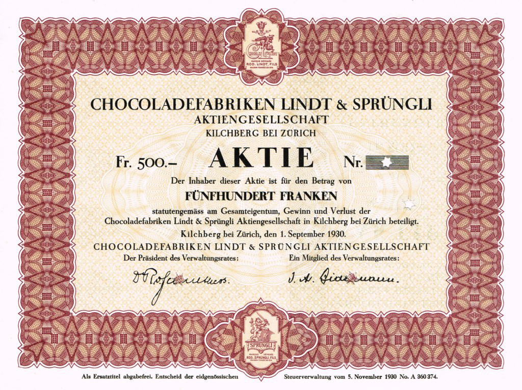 Share of the Chocoladefabrik Lindt & Sprüngli AG, issued 1. September 1930